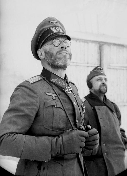 Battle of Cholm, Soviet Union, german General Theodor Scherer (left) and an unknown german officer standing in front of a building. Please note: Date January 1942 seems to be not correct, because General Scherer is carrying the Knight's Cross, which was lent to him at the end of February same year. Concerning the date of the foto it might be better to say: early 1942. GND 123971136